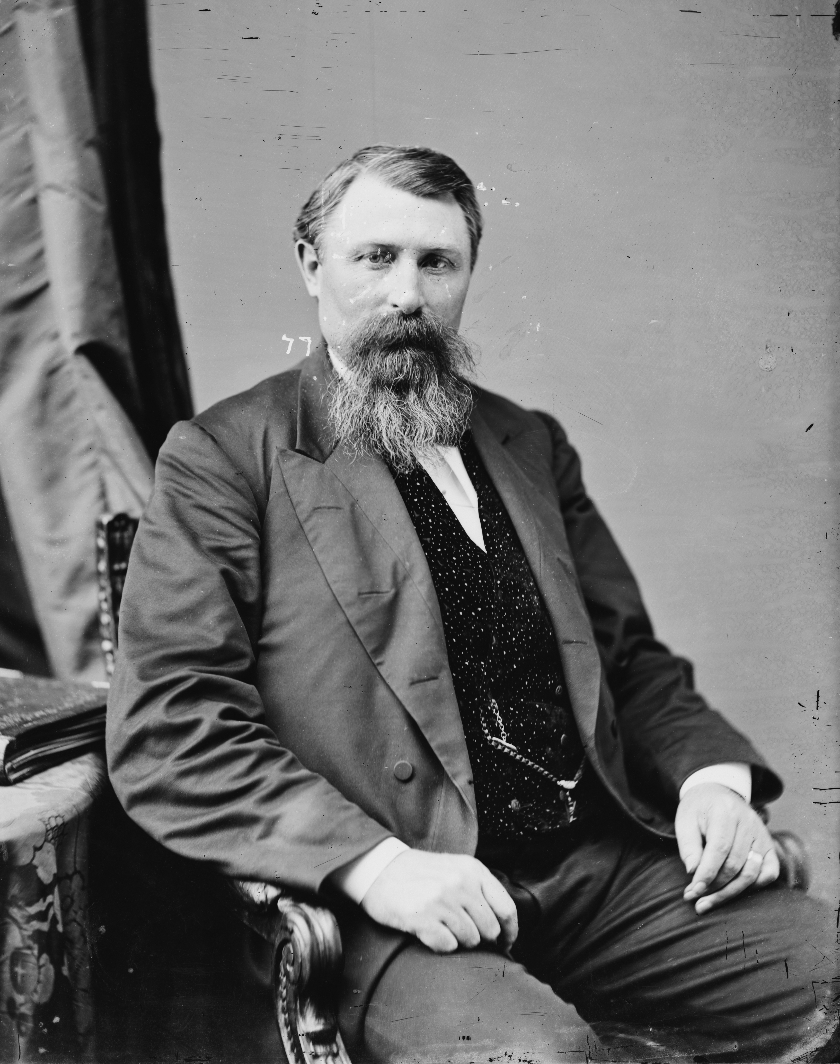 Hon. J. M. Rusk of Wisc.